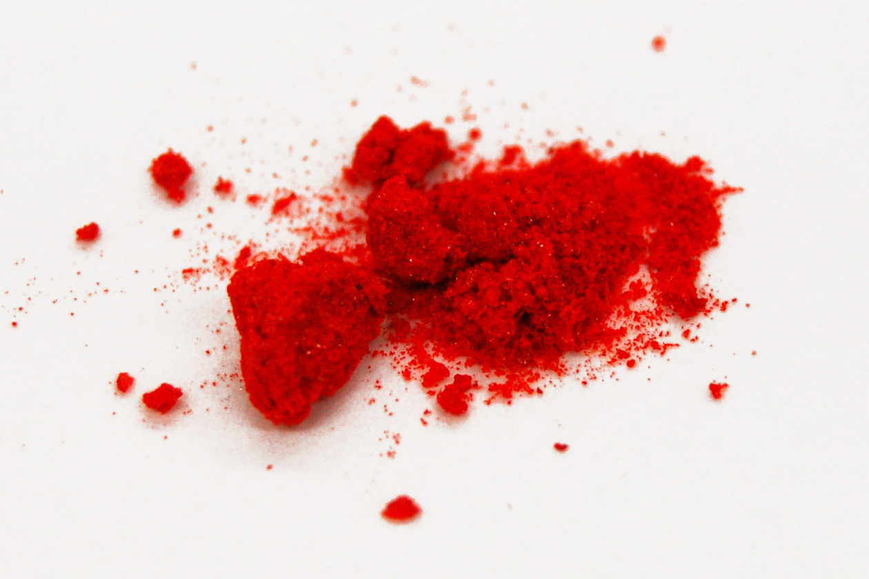 Photograph of a sample of tris(2,2′-bipyridyl)ruthenium(II) chloride hexahydrate, [Ru(bipy)3]Cl2.6H2O. Sample from Acros Organics (98%), CAS # 50525-27-4.